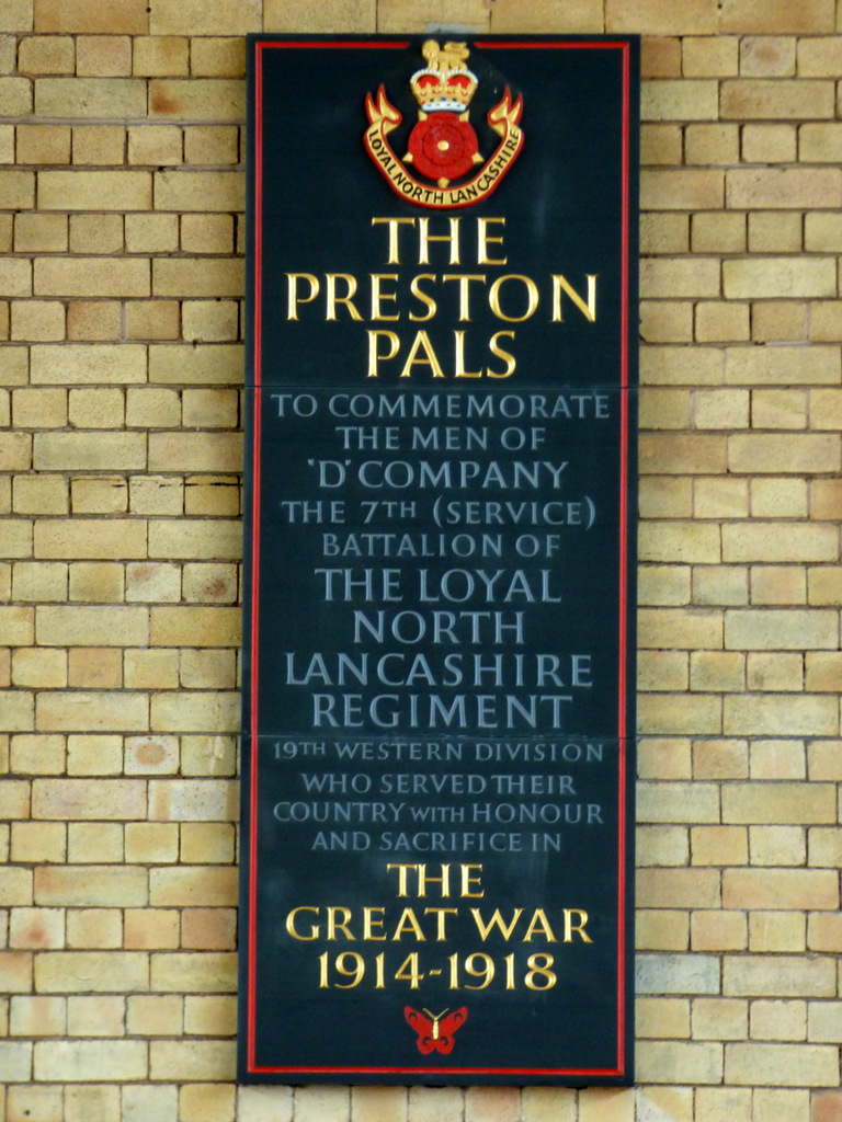 The Preston Pals monument